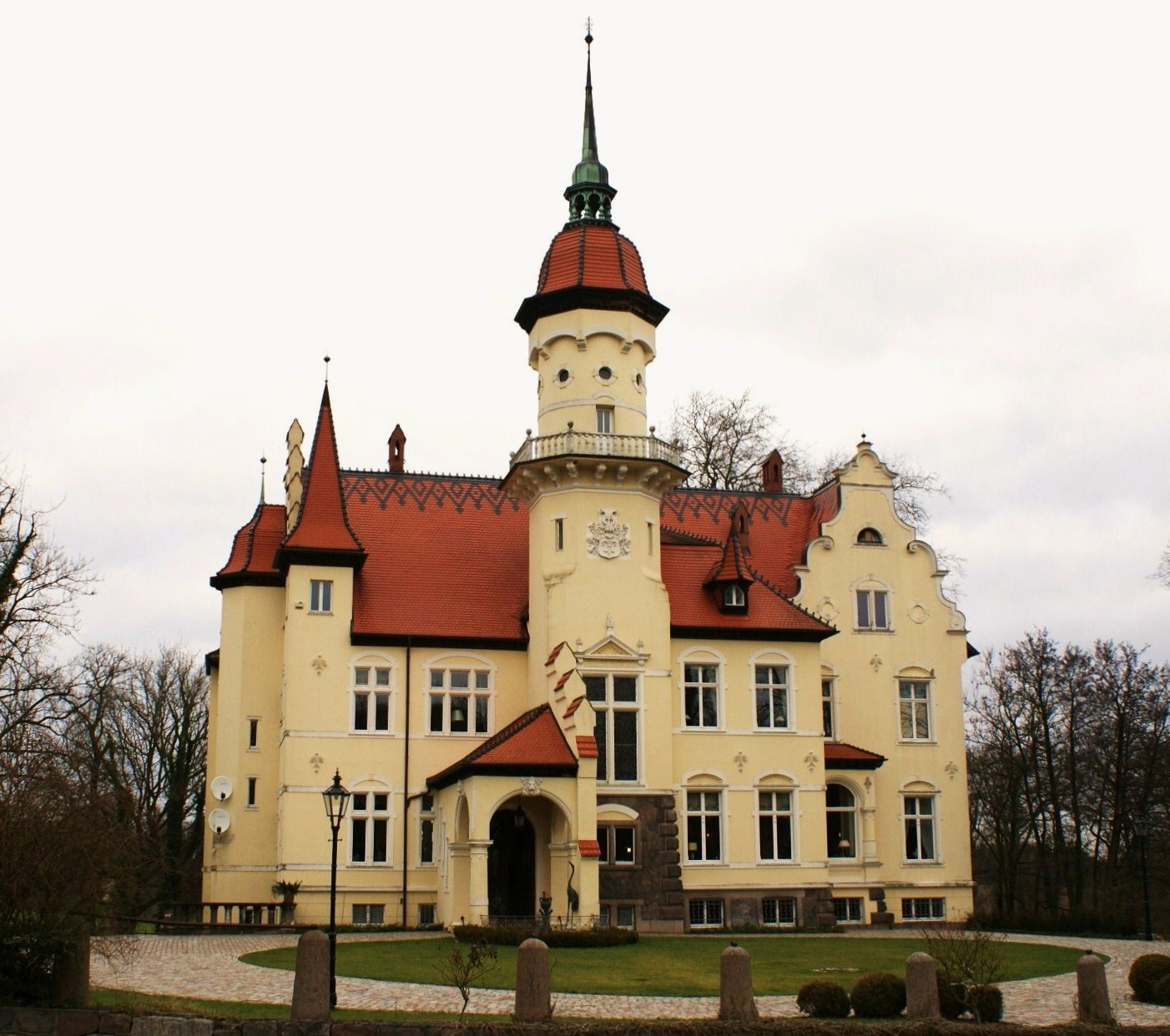 Tralau Manor